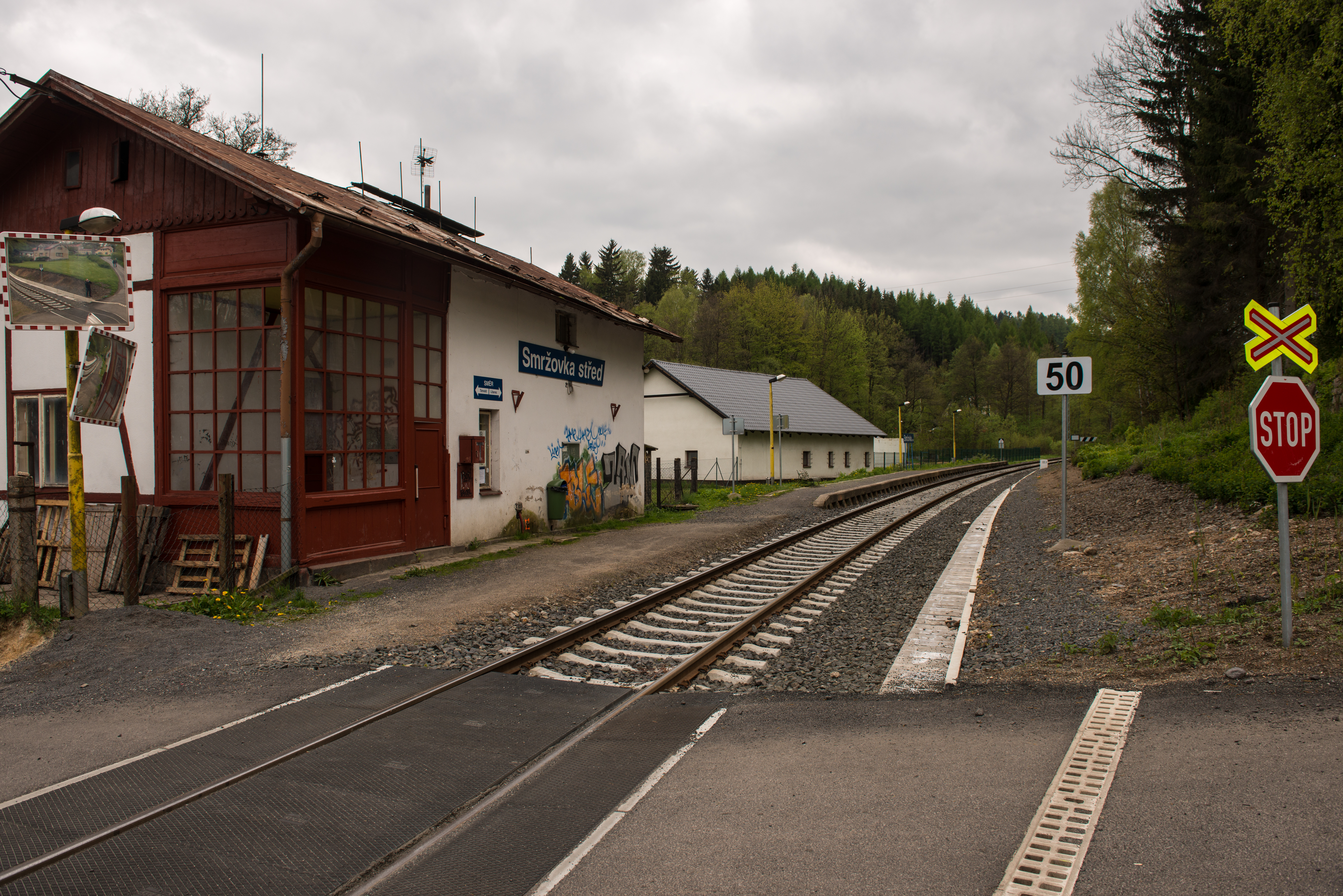 Train station Střední Smržovka